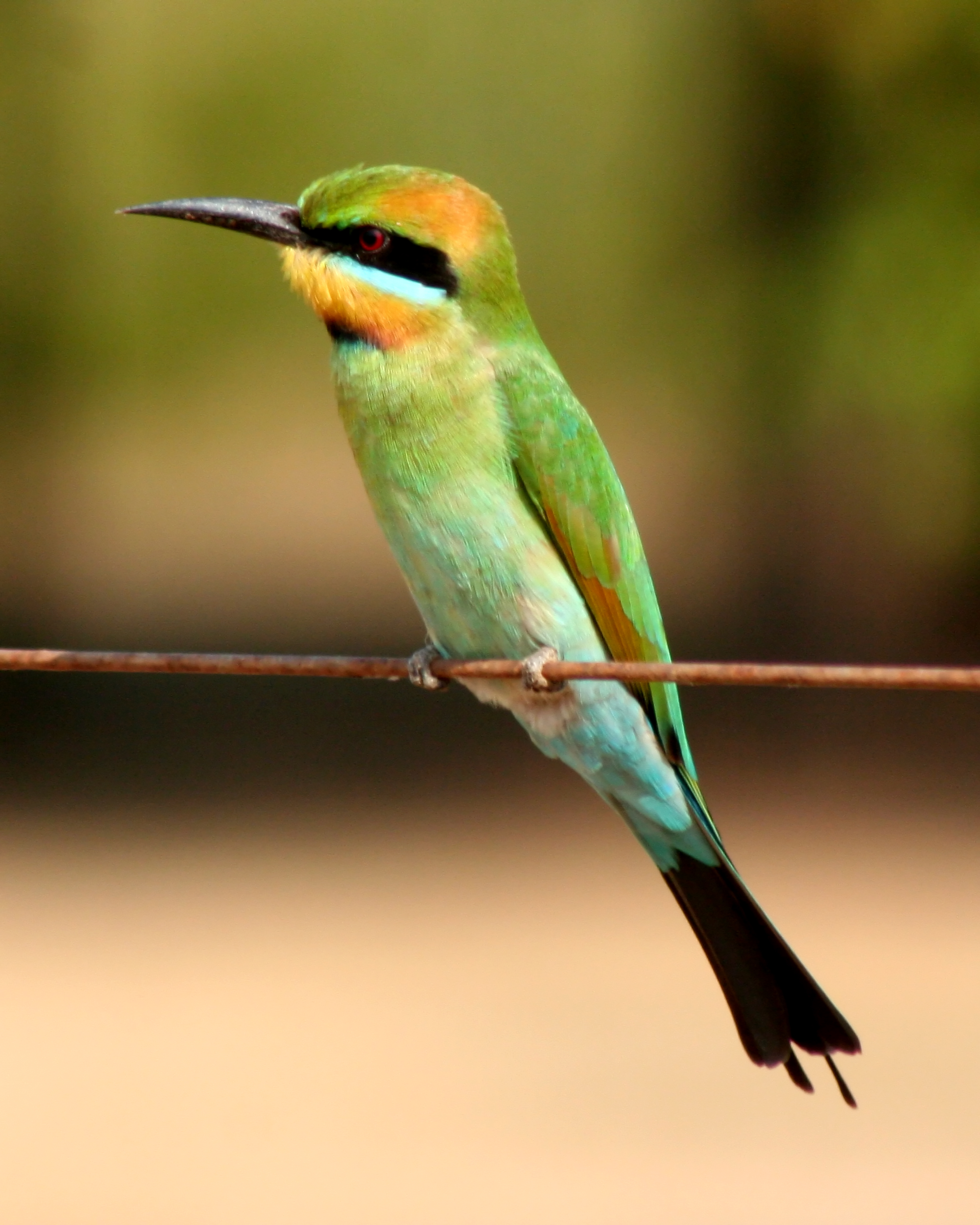 Some birdlife of the Casuarina Reserve. Casuarina Coastal Reserve has kilometres of unspoilt beaches with endless views of the beautiful coastline. Fringed by dramatic cliffs and sweeping casuarina trees, it's an ideal spot for a picnic, a game of beach cricket or to watch the Territory sun slip over the horizon at dusk. Depending on the time of year, you might see wading and migratory birds or nesting turtles on the beach. Heritage listed ruins from World War II are scattered through the reserve.